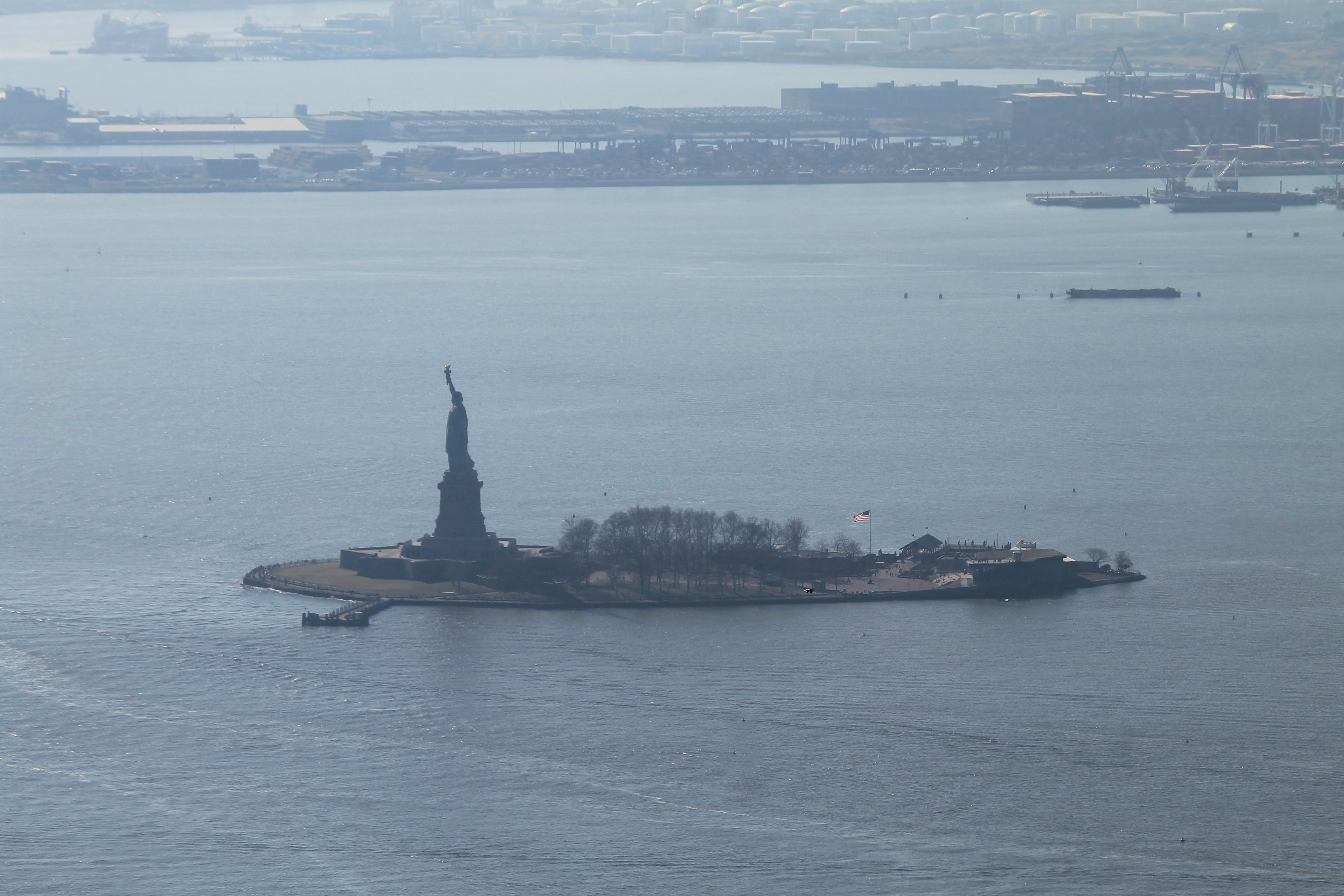 This photo is showing the view of Liberty Island from the One World Trade Center Skypod.